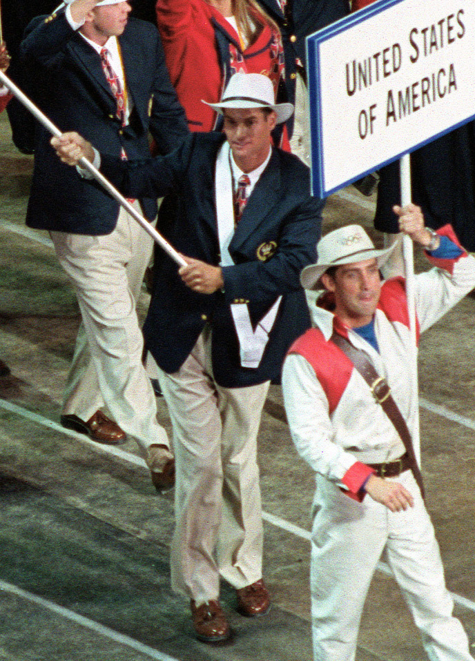 A high angle view looking down at the United States athletes as they enter Sydney's Olympic Stadium during opening ceremonies of the 2000 Olympic games. They received a warm welcome from the 110,000 people in attendance on September 15th, 2000.